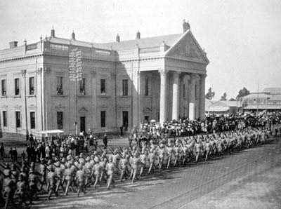 1st Battalion, Loyal North Lancashire Regiment in Kimberly, South Africa, during the Second Anglo-Boer War.